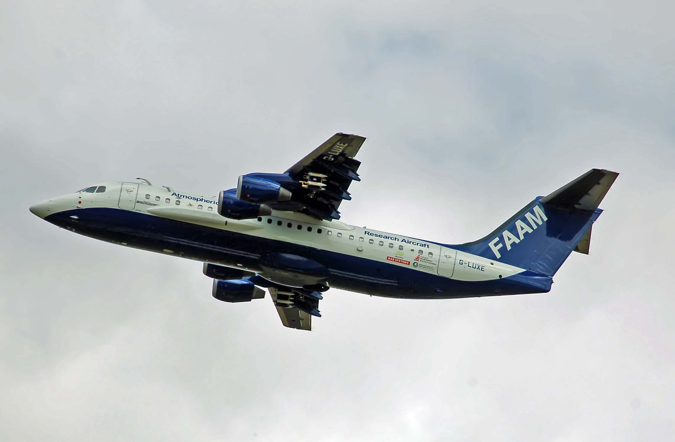 BAe 146-300 aircraft of the FAAM (Facility for Airborne Atmospheric Experiments) takes off from RAF Fairford, Gloucestershire, England during Royal International Air Tattoo departures day.